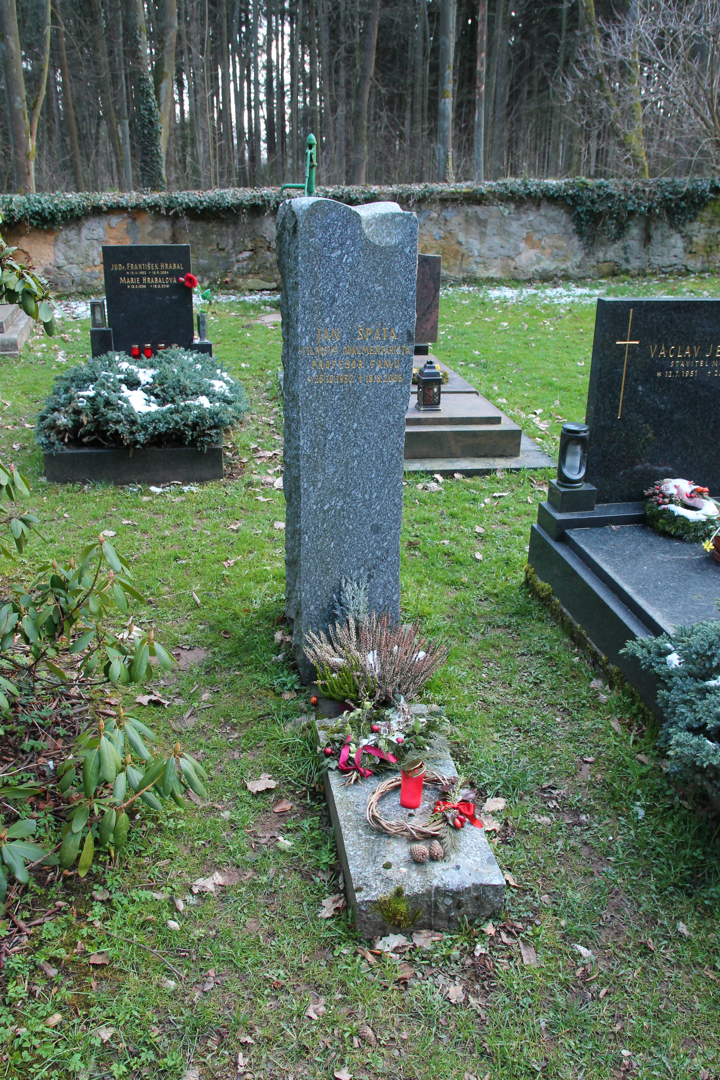 Aldašín